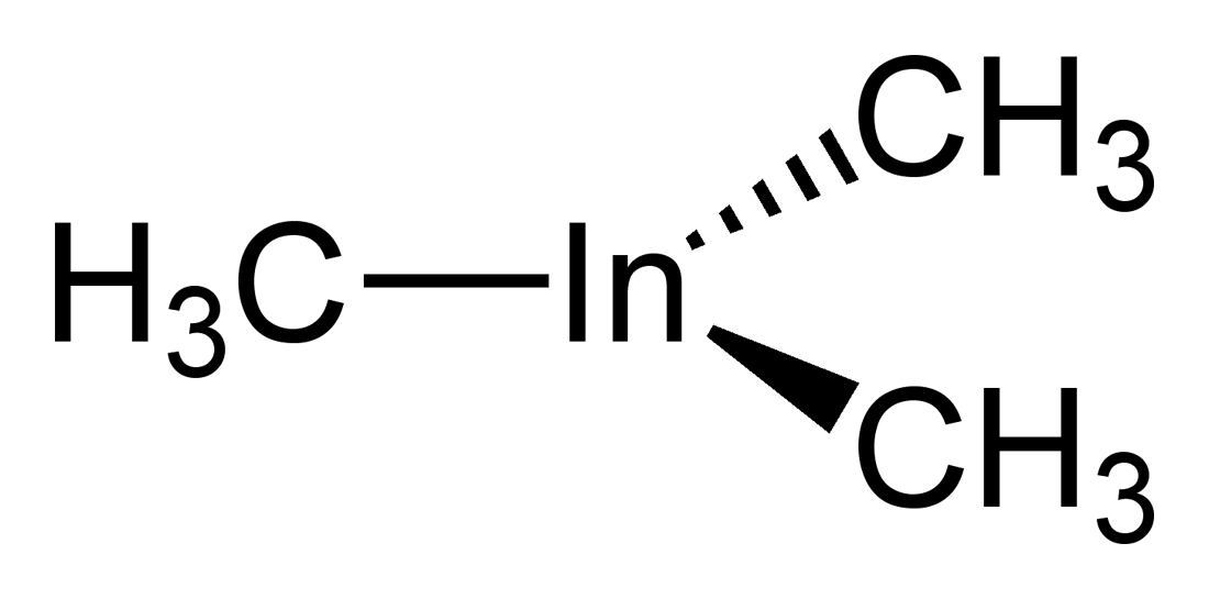 Structural formula of the trimethylindium molecule, In(CH3)3 as found in the crystalline solid. X-ray crystallographic data from J. Lewiski, J. Zachara, K. B. Starowieyski, I. Justyniak, J. Lipkowski, W. Bury, P. Kruk, R. Woniak (2005). "A Second Polymorphic Form of Trimethylindium: Topology of Supramolecular Architectures of Group 13 Trimethyls". Organometallics 24 (20): 4832–4837.